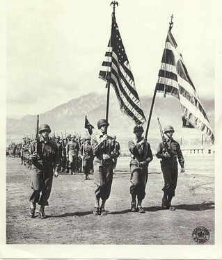 The Greek flag flying next to the American flag when FDR viewed the Greek Battalion. 1943